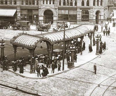 Pioneer Square Pergola, 1914. Image sepia toned, tonal range increased by ShadowDragon.